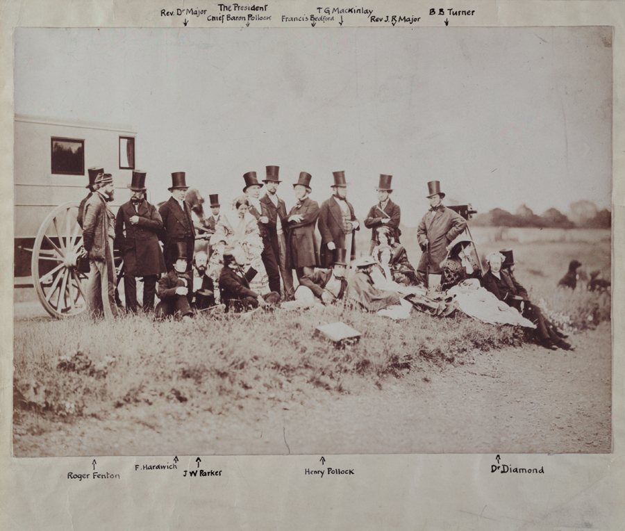 Creator: Unknown Date: July 1856 Format: Photograph; albumen print Material: Paper Collection: The Royal Photographic Society Collection at the National Media Museum Inventory no: 2003-5001/2/21727 Blog post: Snappy 5th birthday Flickr Commons This photograph was taken during a Society outing to Hampton Court. Included, amongst others, are Roger Fenton (1819 - 1869), Francis Bedford (1816 - 1894), Benjamin Brecknell Turner (1815 - 1894) and Hugh Welch Diamond (1808 - 1886). The photographic van in the left background probably belongs to Roger Fenton. The Photographic Society was set up in 1853 for 'the promotion of the Art and Science of Photography, by the interchange of thought and experience amongst Photographers'.